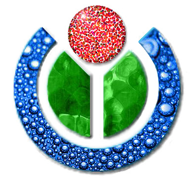 A shiny logo